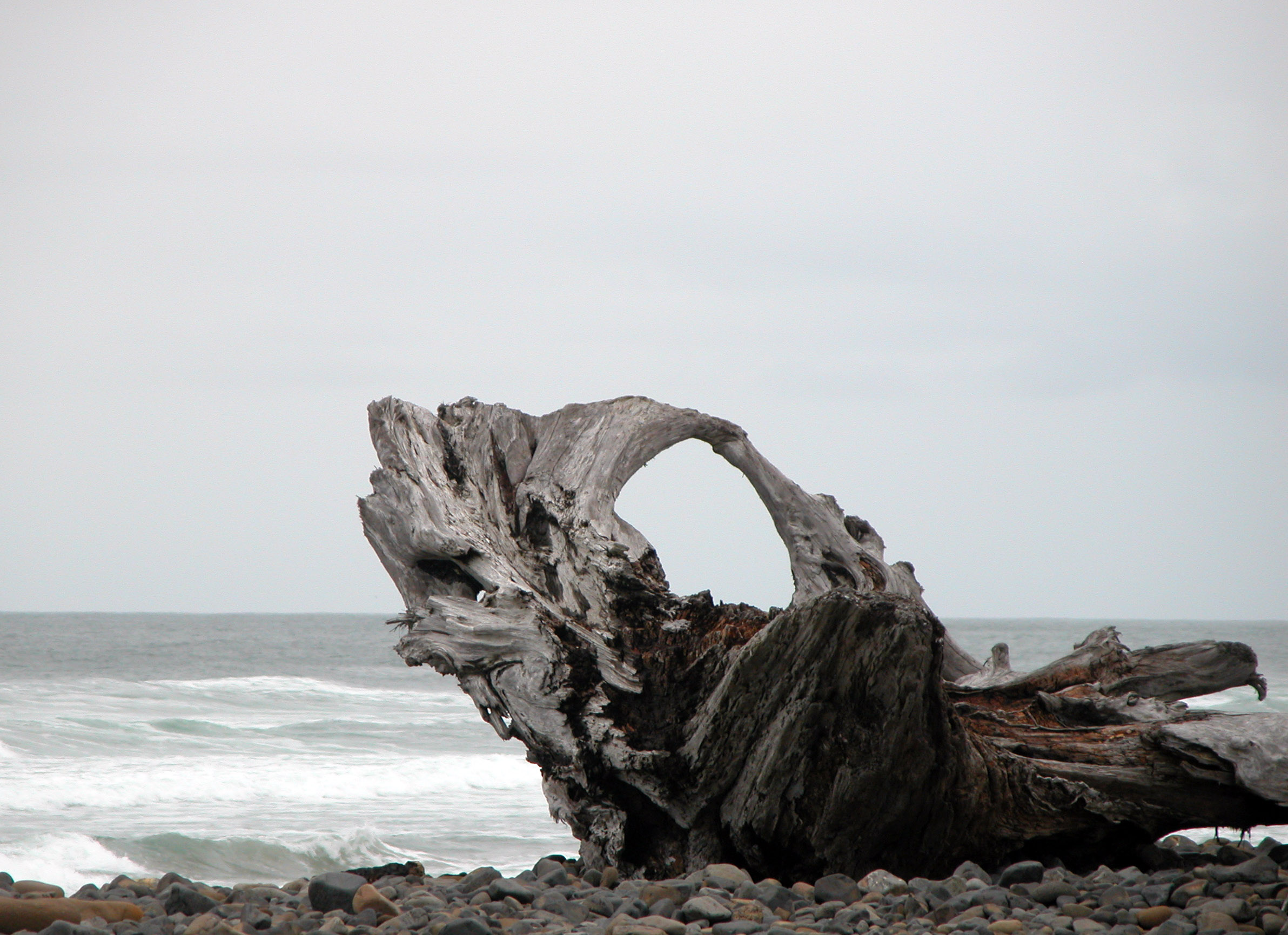 A piece of driftwood on a beach in Oregon.